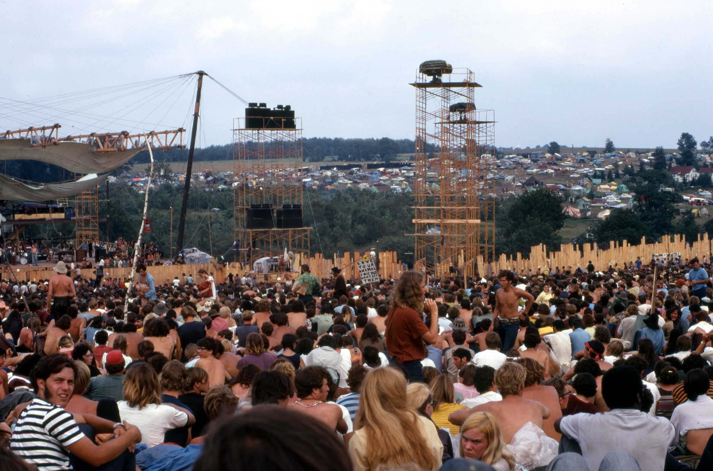 Picture taken on 17 August 1969 at the Woodstock Music and Art Fair. The person carrying the placard is Moonfire Lewis Beach Marvin III. Joe Cocker is performing on stage.